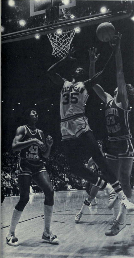 Photograph Phil Hubbard (right)